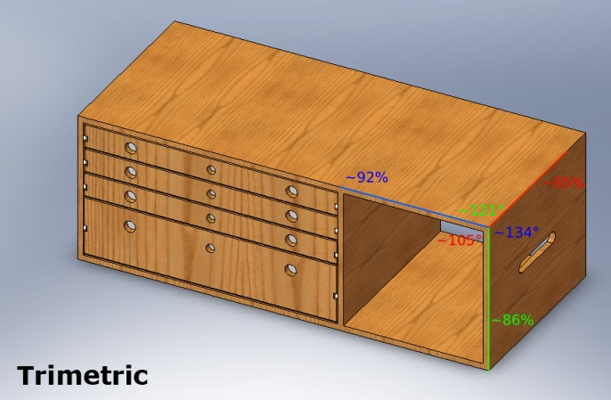 Trimetric projection